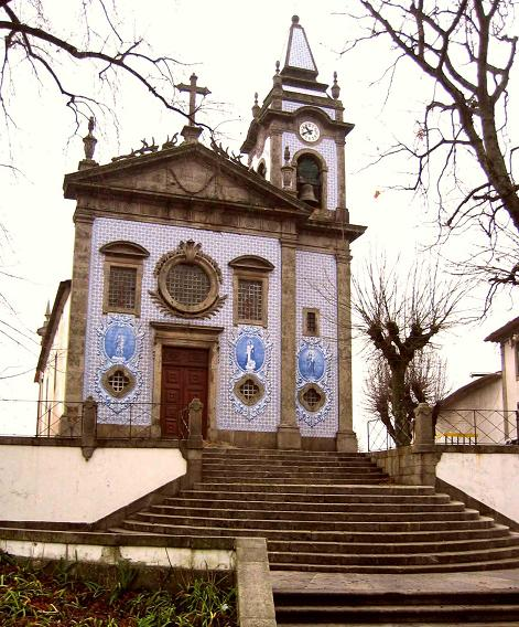 Church of Campanhã – Oporto - Portugal